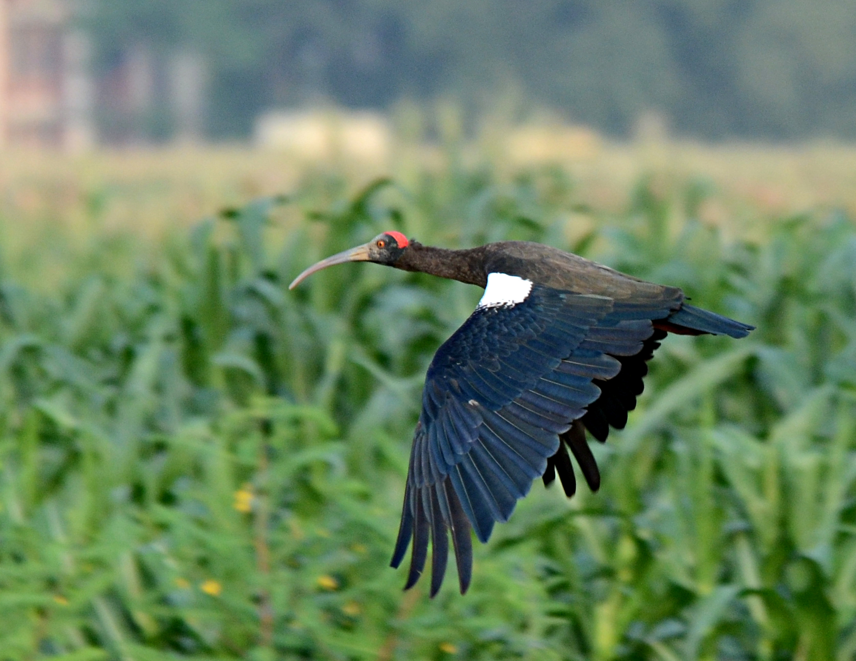 Red-naped Ibis in flight